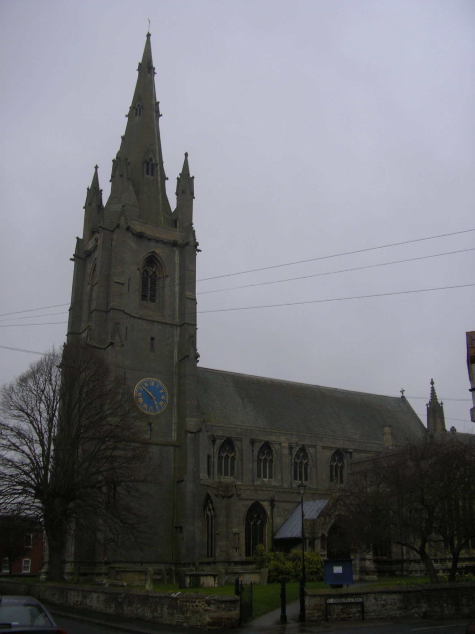 Heckington Church in Lincolnshire, seen from the south.